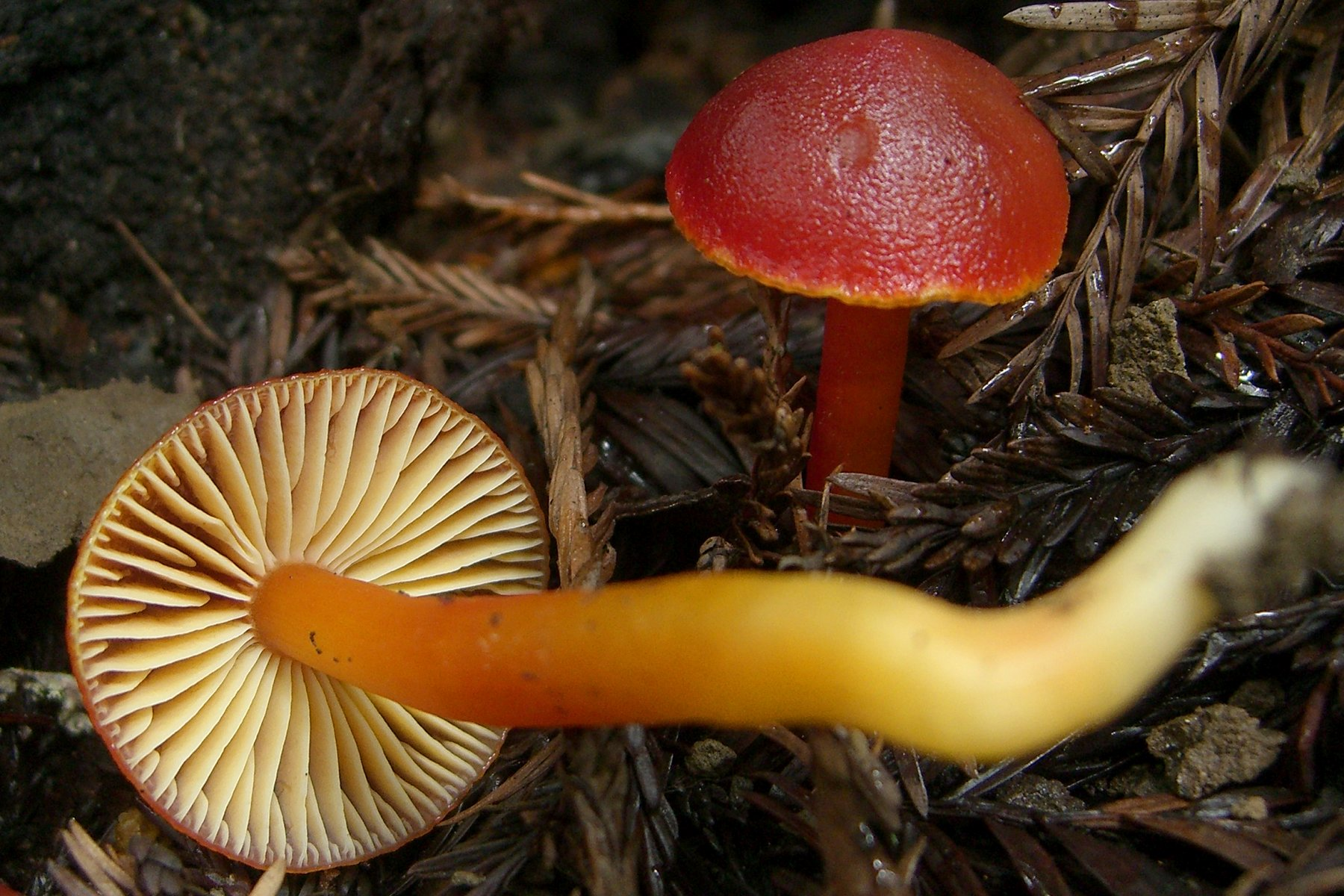 Scarlet waxy cap (Hygrocybe punicea (Fr.) P. Kumm.), Grizzly Creek Redwoods State Park, California, USA. Certainty: positive (notes)